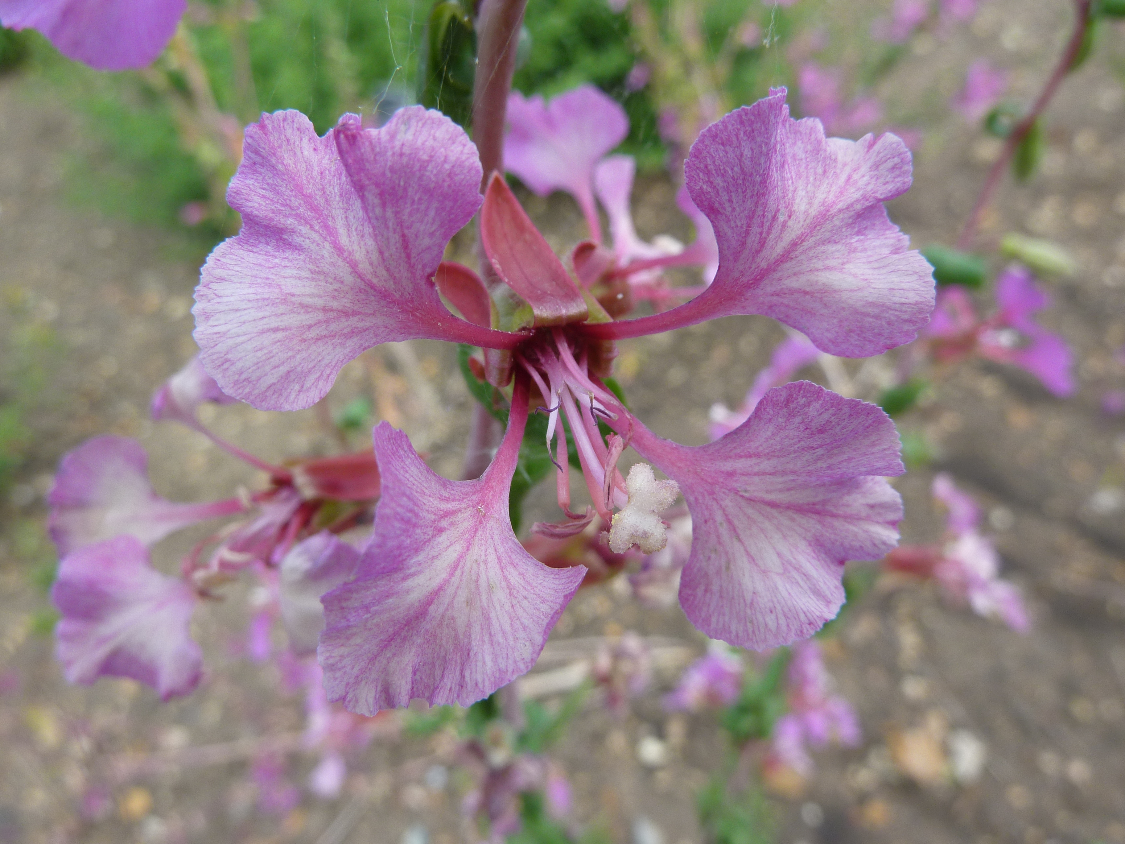 Taken in the Cambridge University Botanic Garden